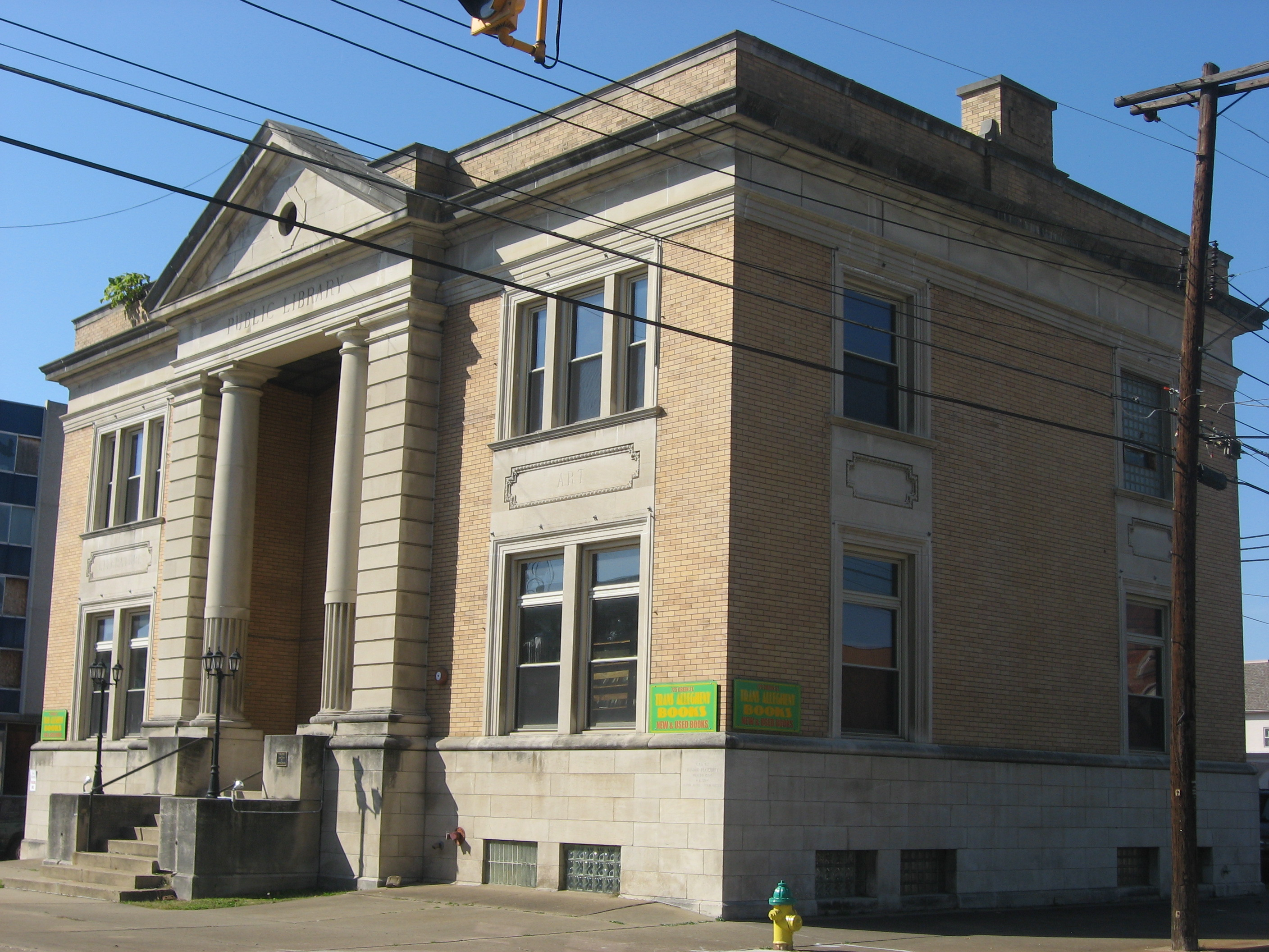 Front and northern side of the Parkersburg Carnegie Library, located at 725 Green Street at the West Virginia Route 618 intersection in Parkersburg, West Virginia, United States. Built in 1915, it is listed on the National Register of Historic Places.